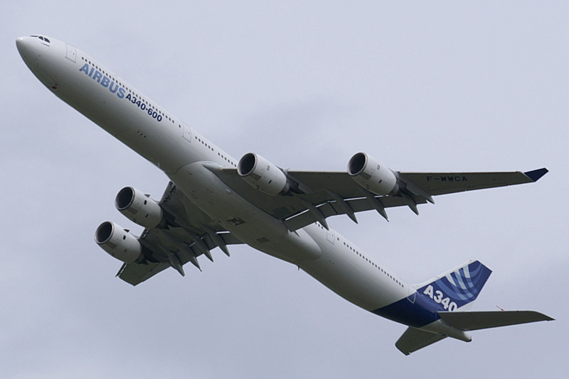 First A340-600 prototype doing a flying display at ILA 2006